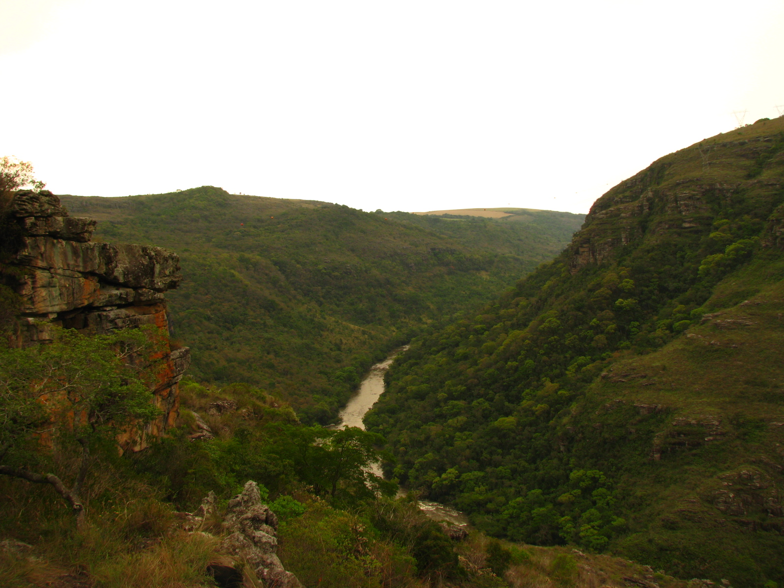 Guartela Canyon